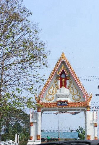 Buddhist temple arch in Wat Pa Kluai, Ban Pa Kluai, Khung Taphao subdistrict, Mueang Uttaradit, Uttaradit Province, Thailand.